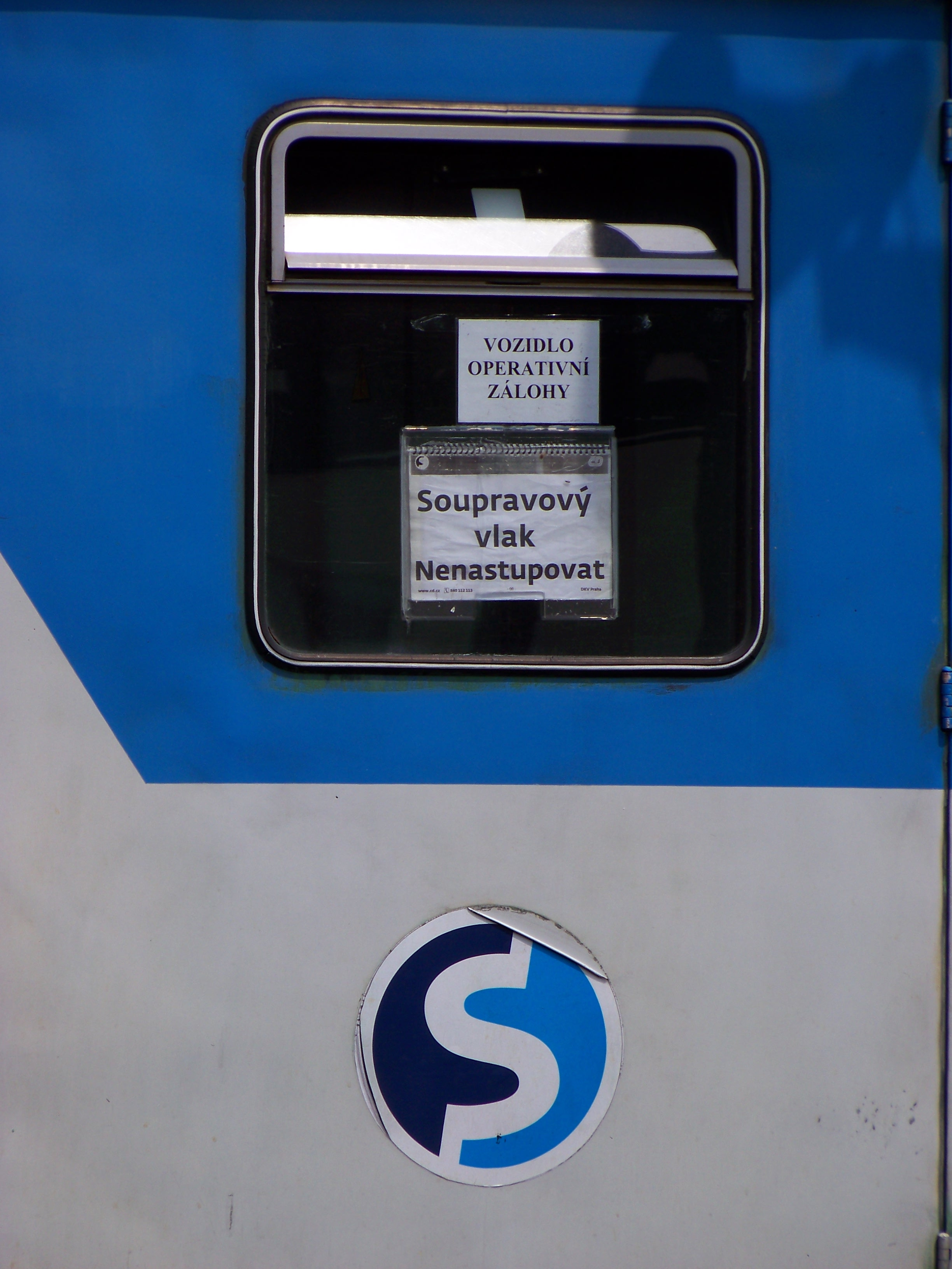 Prague-Vysočany, Czech Republic. Train station Praha-Vysočany, a train of ČD.